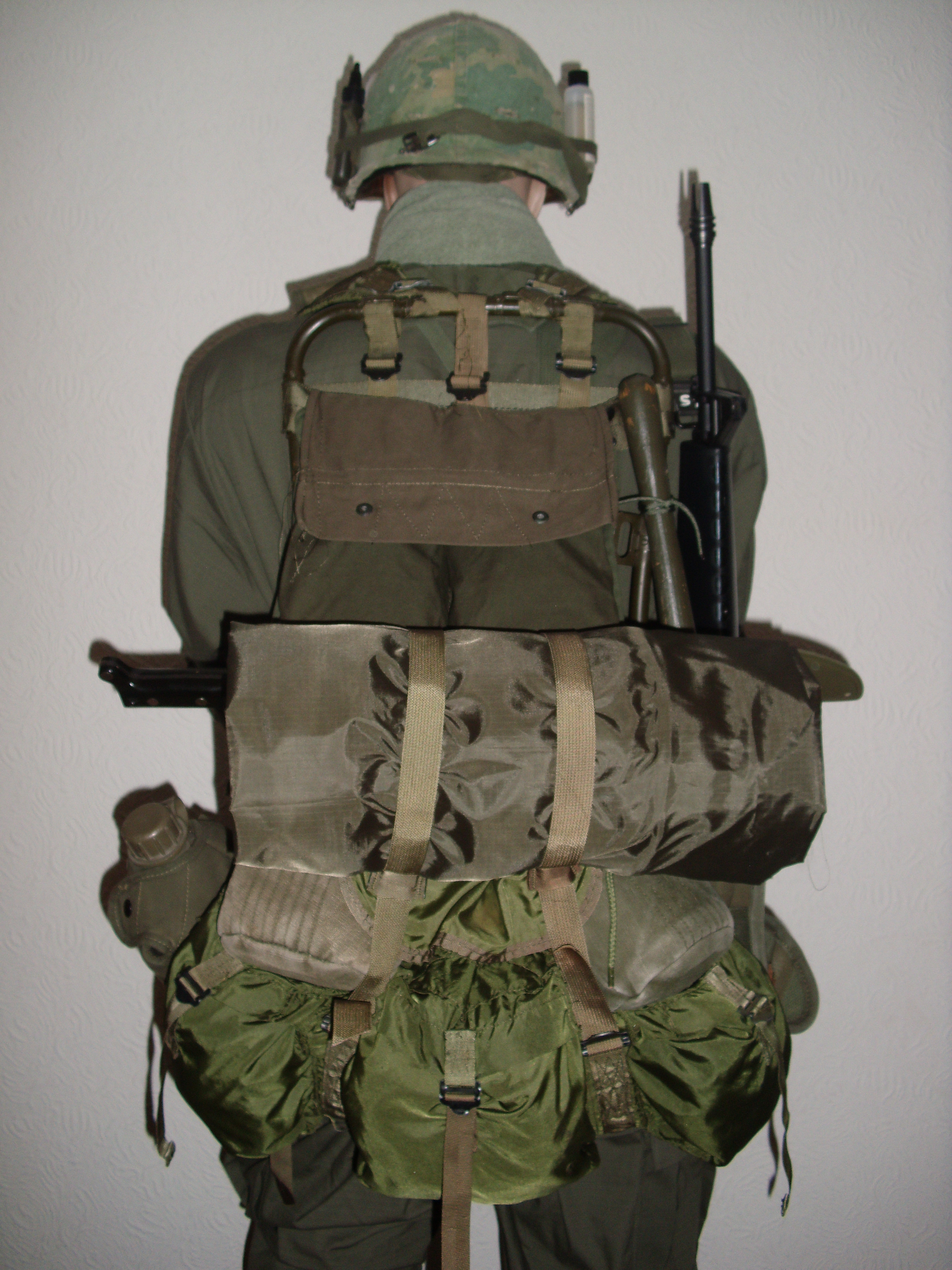 Lightweight Rucksack loaded